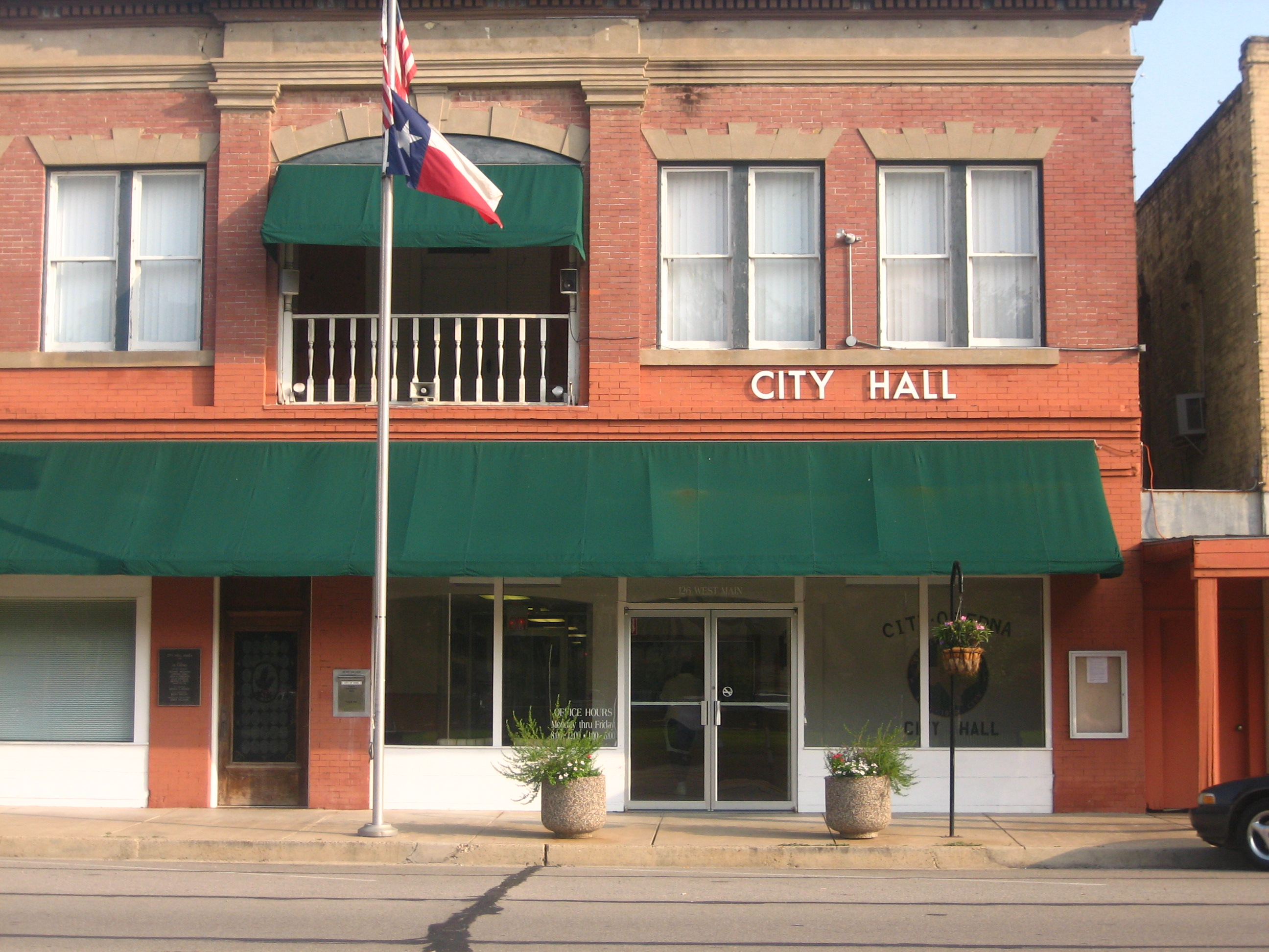 I took photo on July 31, 2008.Billy Hathorn (talk) 00:05, 18 August 2008 (UTC)